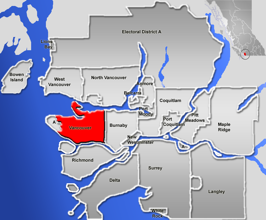 Location of Vancouver, Greater Vancouver Area, British Columbia